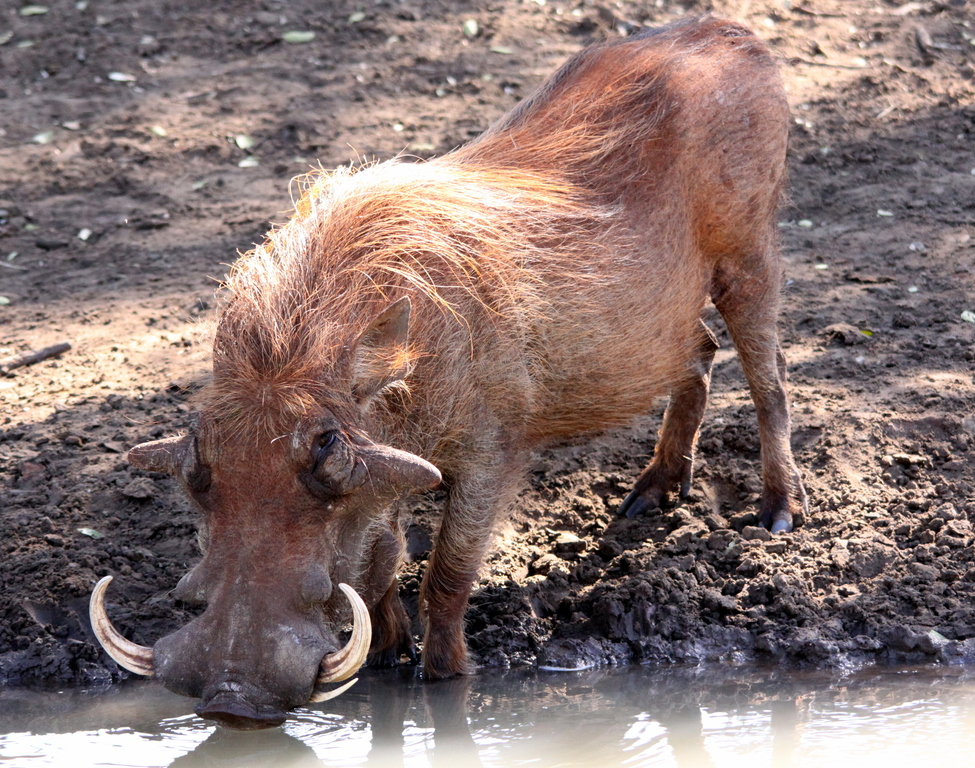 Red warthog